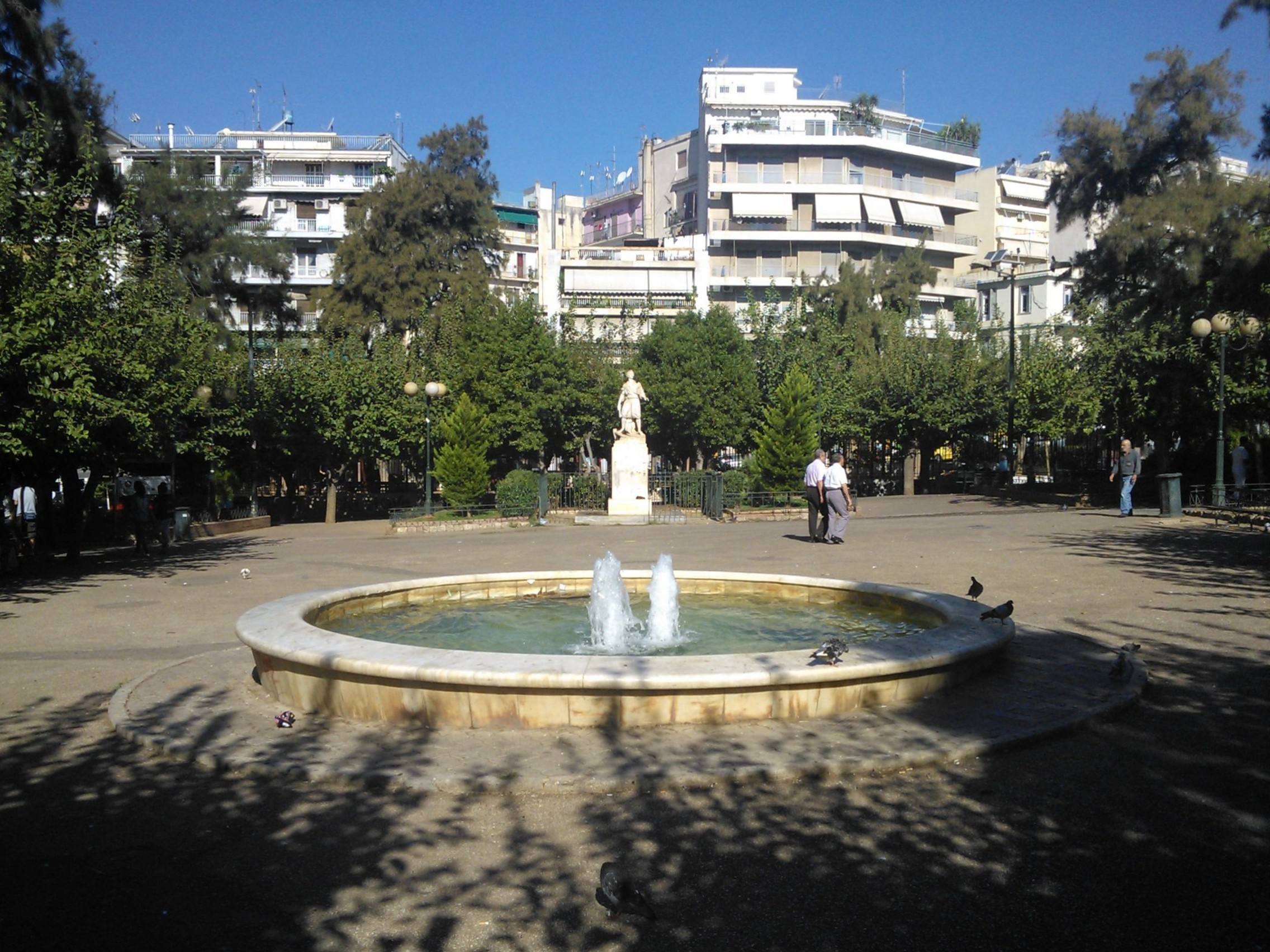 Kypseli Square with Kanaris Statue in September 2013